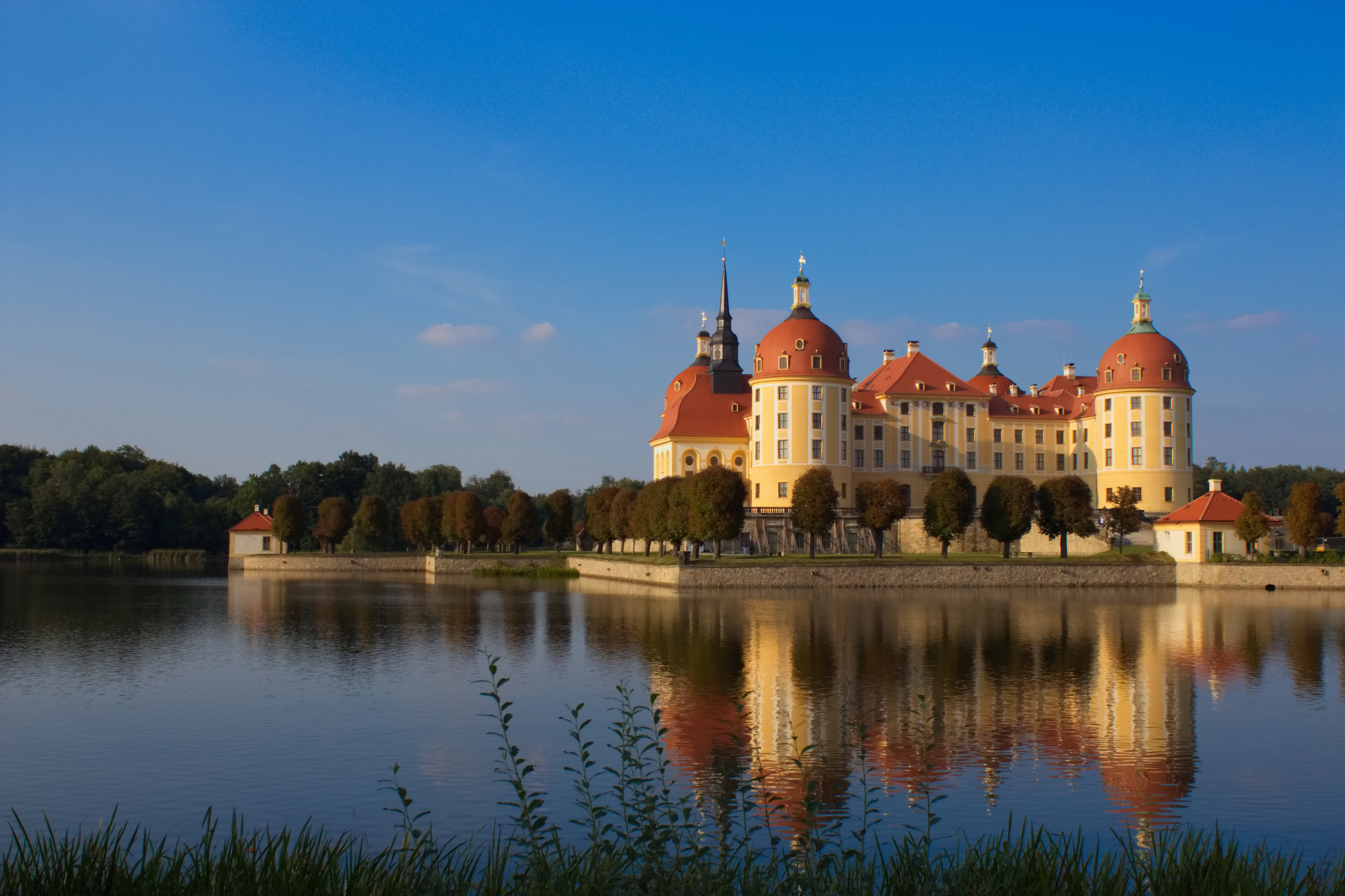 Moritzburg Castle, taken from south-west.